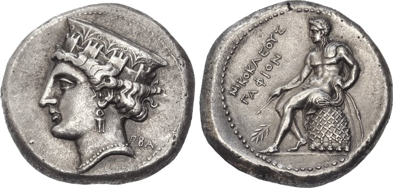 Coin of Nikokles king of Paphos